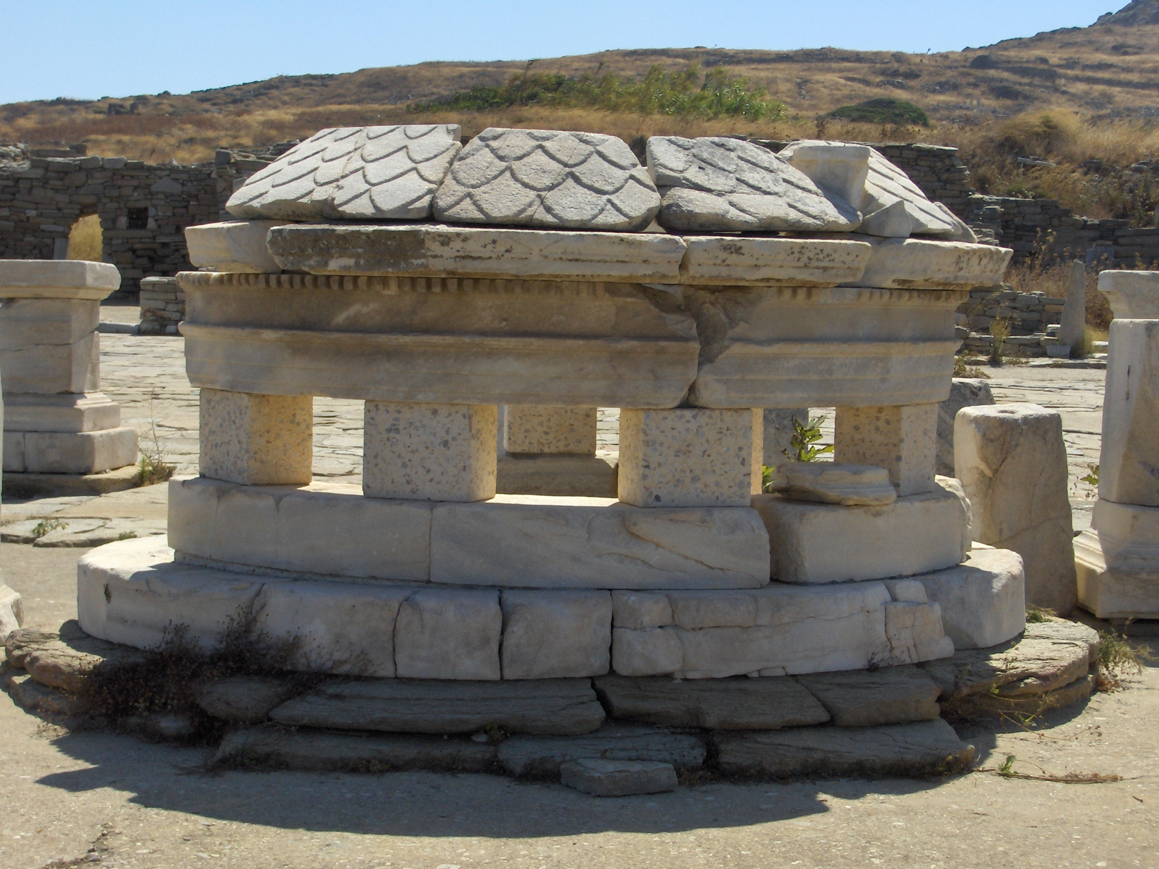 Ruins at the island of Delos. Agora of the Competaliastae.